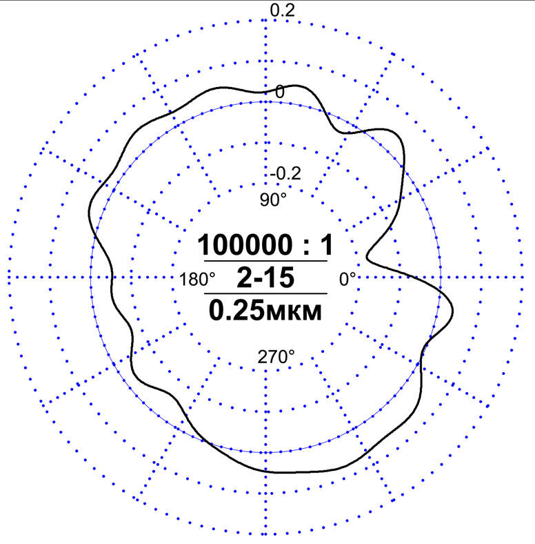 roundness polar chart